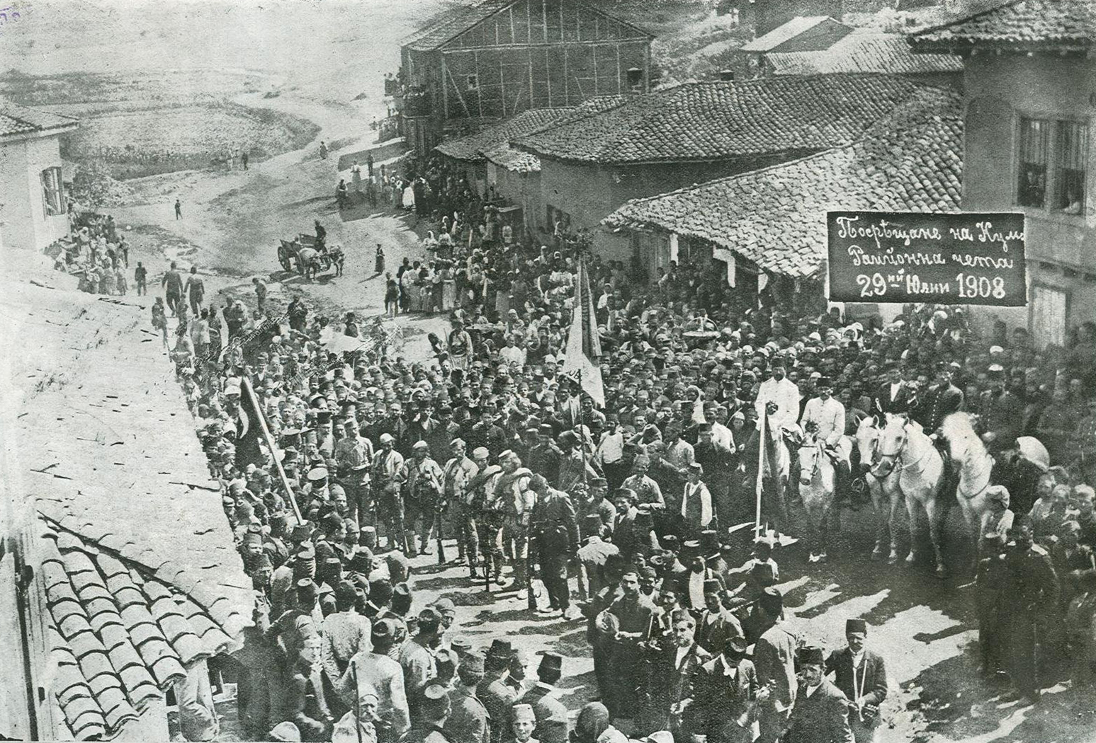 Cheta of Krustio Lazarov entering Kumanovo after the Young Turks revolution